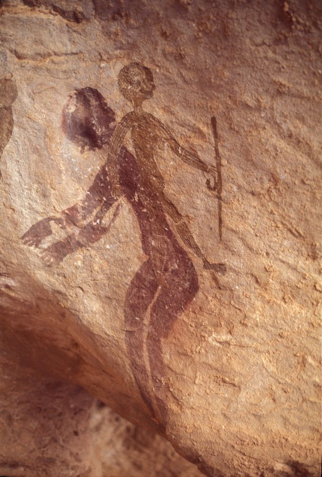 Superimposed human figures.